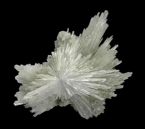 Scolecite Locality: Shigar Valley, Skardu District, Baltistan, Gilgit-Baltistan (Northern Areas), Pakistan Size: 3.6 x 3.0 x 2.1 cm An unusual Scolecite specimen with minor green "Chlorite" from Pakistan, most likely from one of the "Alpine-type" cleft deposits, as similar specimens have been found in the Italian and Austrian Alps. The piece came from a Pakistani dealer who did not have a specific locality for it. The piece features a few attractive radial "sprays" of thin, white prismatic crystals which displays well from several angles. A hard to find Zeolite specimen from this prolific mineral producing region in Pakistan.